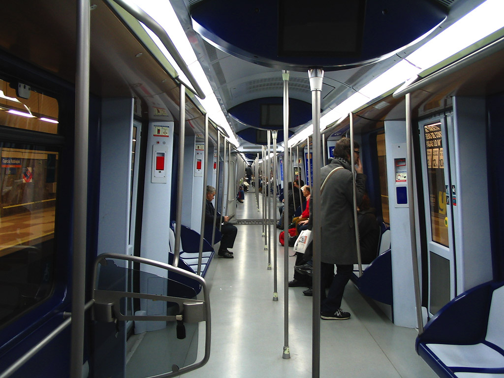 Interior of a Madrid's Metro train.